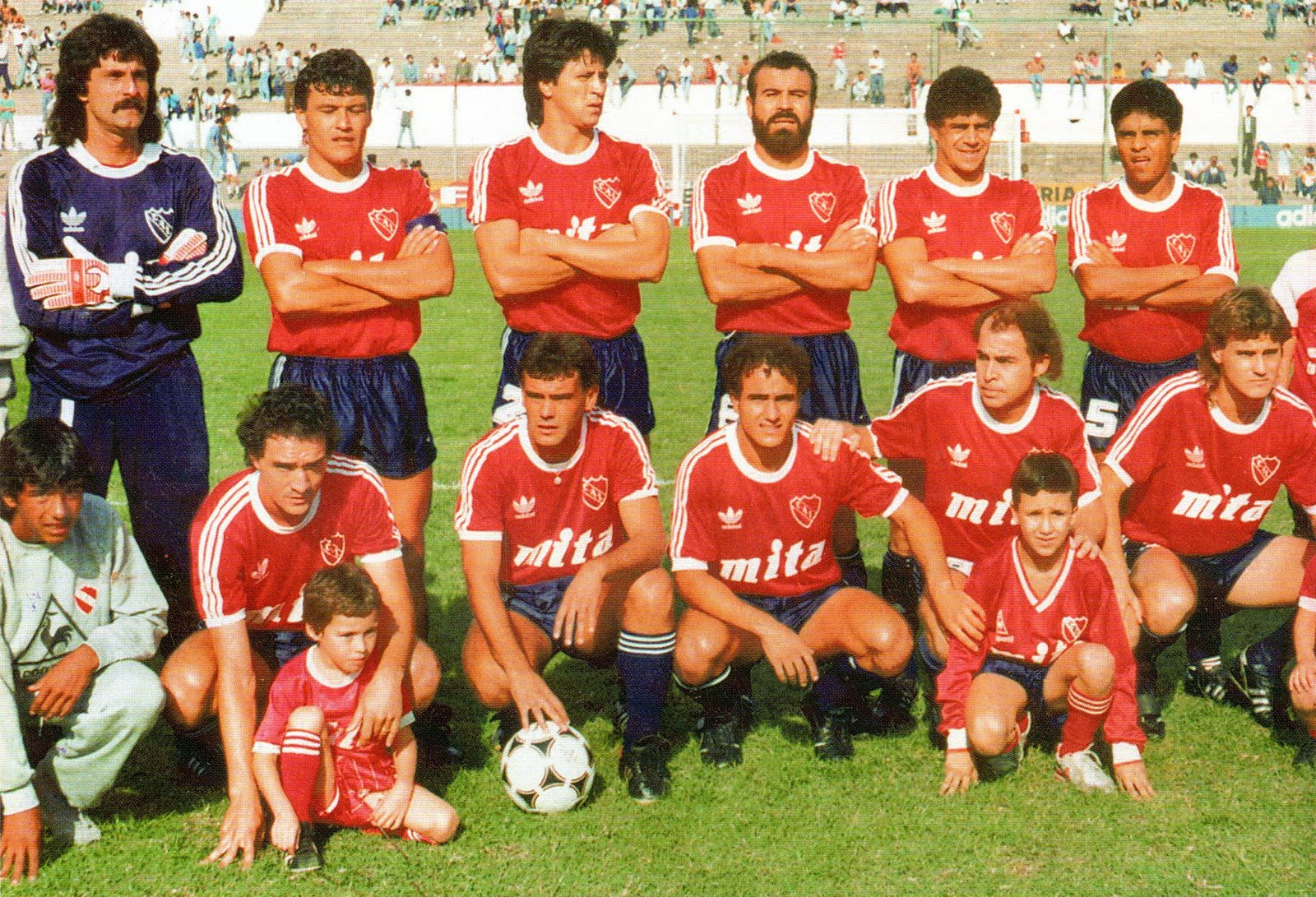 The 1988-89 Independiente football team that won the Primera División title.